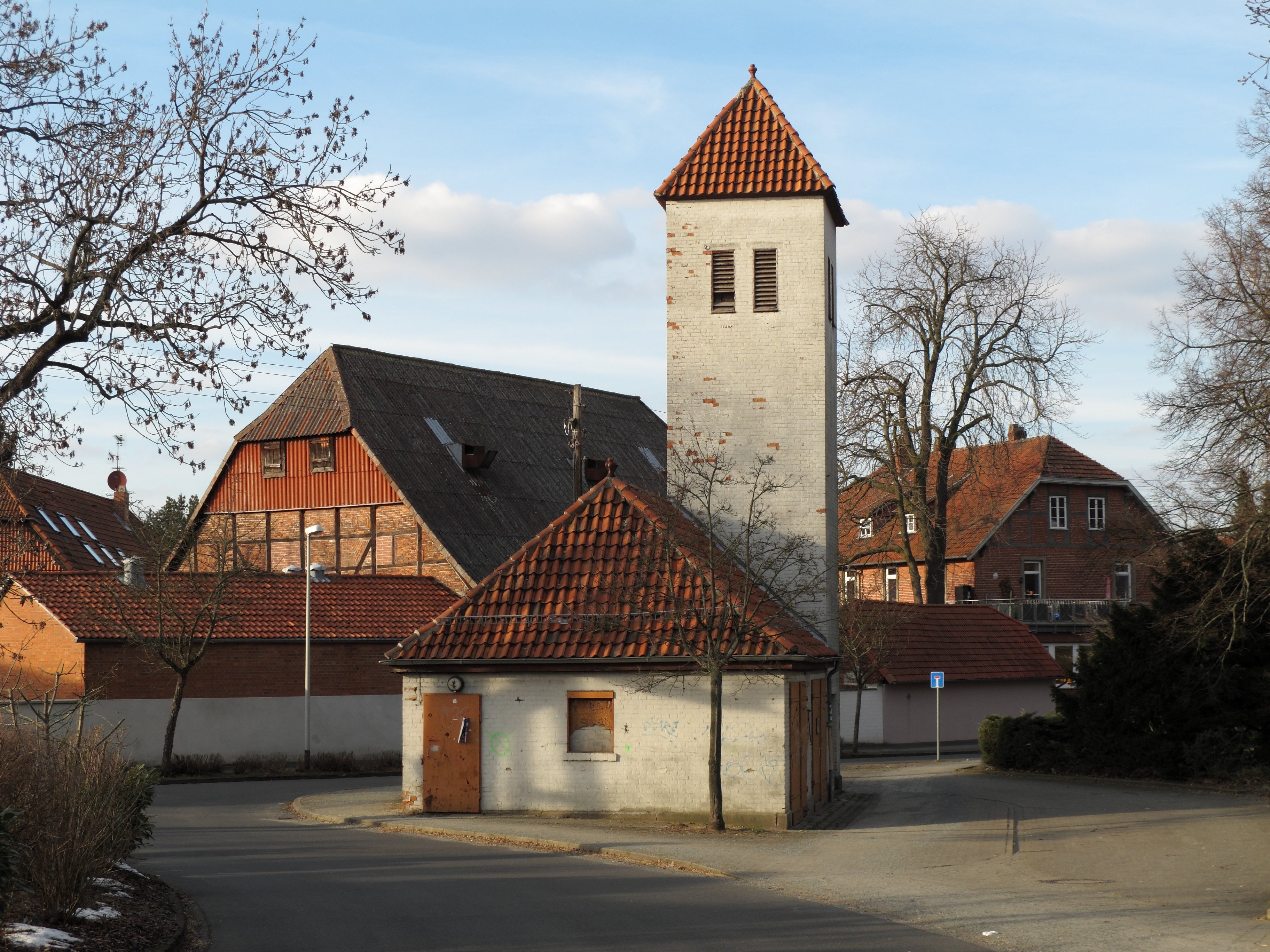 Germany, Brunswick-Watenbüttel, Street 'Am Grasplatz', view to the old civic centre